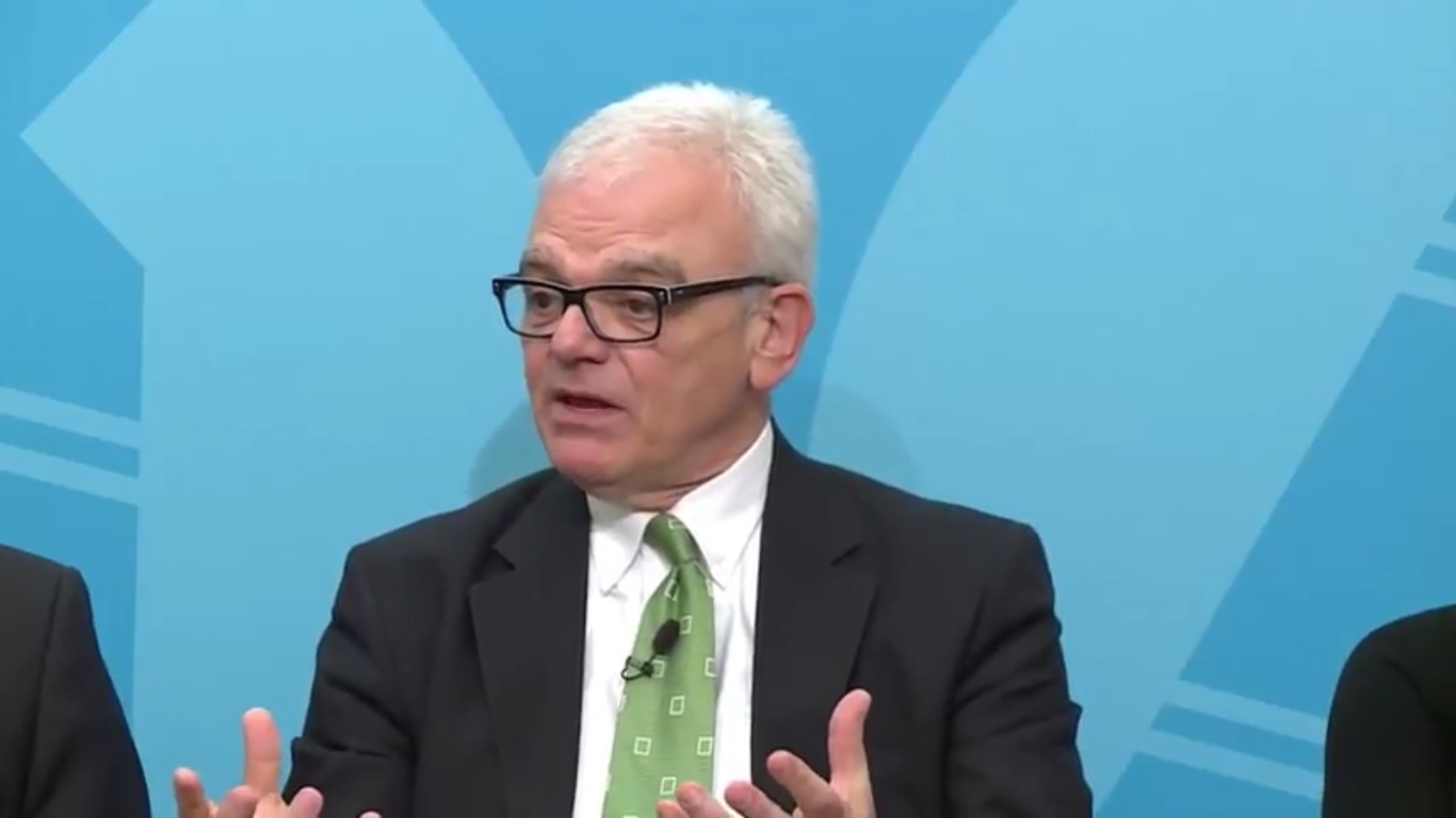 Don Gonyea speaks to the City Club of Cleveland